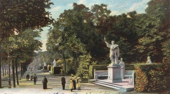 former boulevard Siegesallee in Berlin - the memorial for Albert I of Brandenburg in the foreground